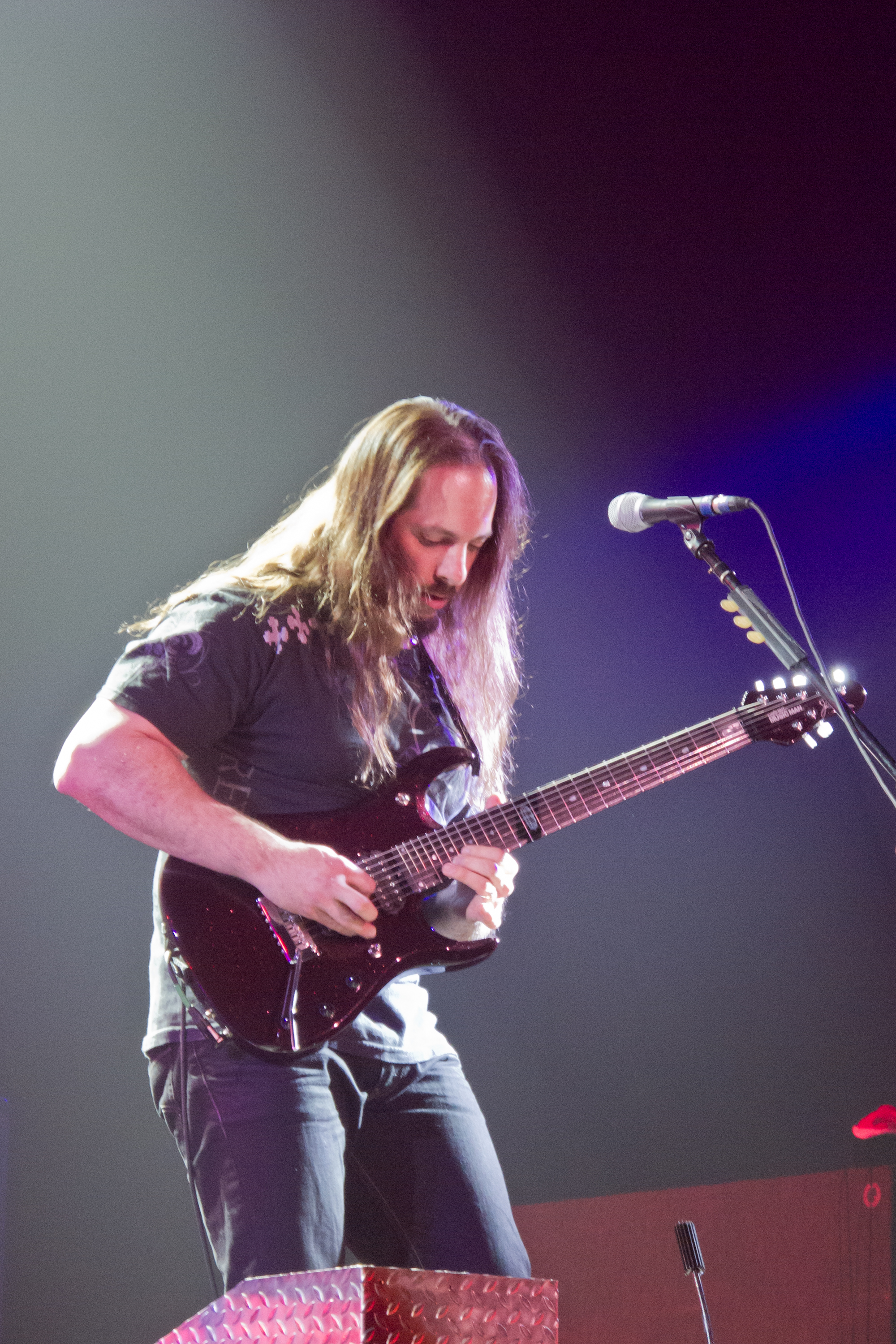 John Petrucci in concert with Dream Theater in 2012.